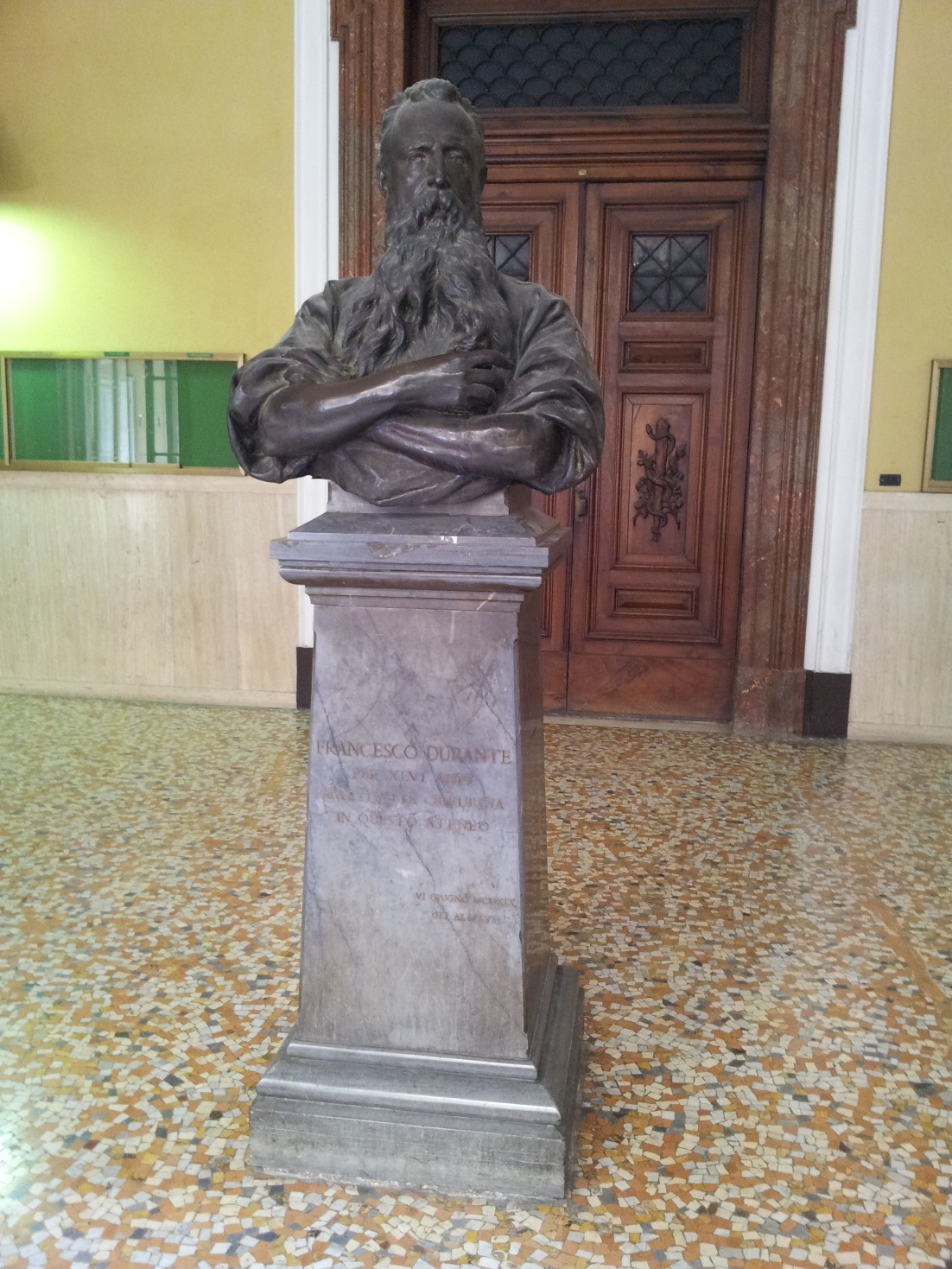 This bronze bust of Francesco Durante - very similar to the one erected in his hometown (probably by the same Author, Ettore Ximenes) - can be seen in the first floor of the original Clinica Chirurgica (surgical clinic) of the Policlinico Umberto I in Rome, just in front of the entrance to the main hall of the Institute.